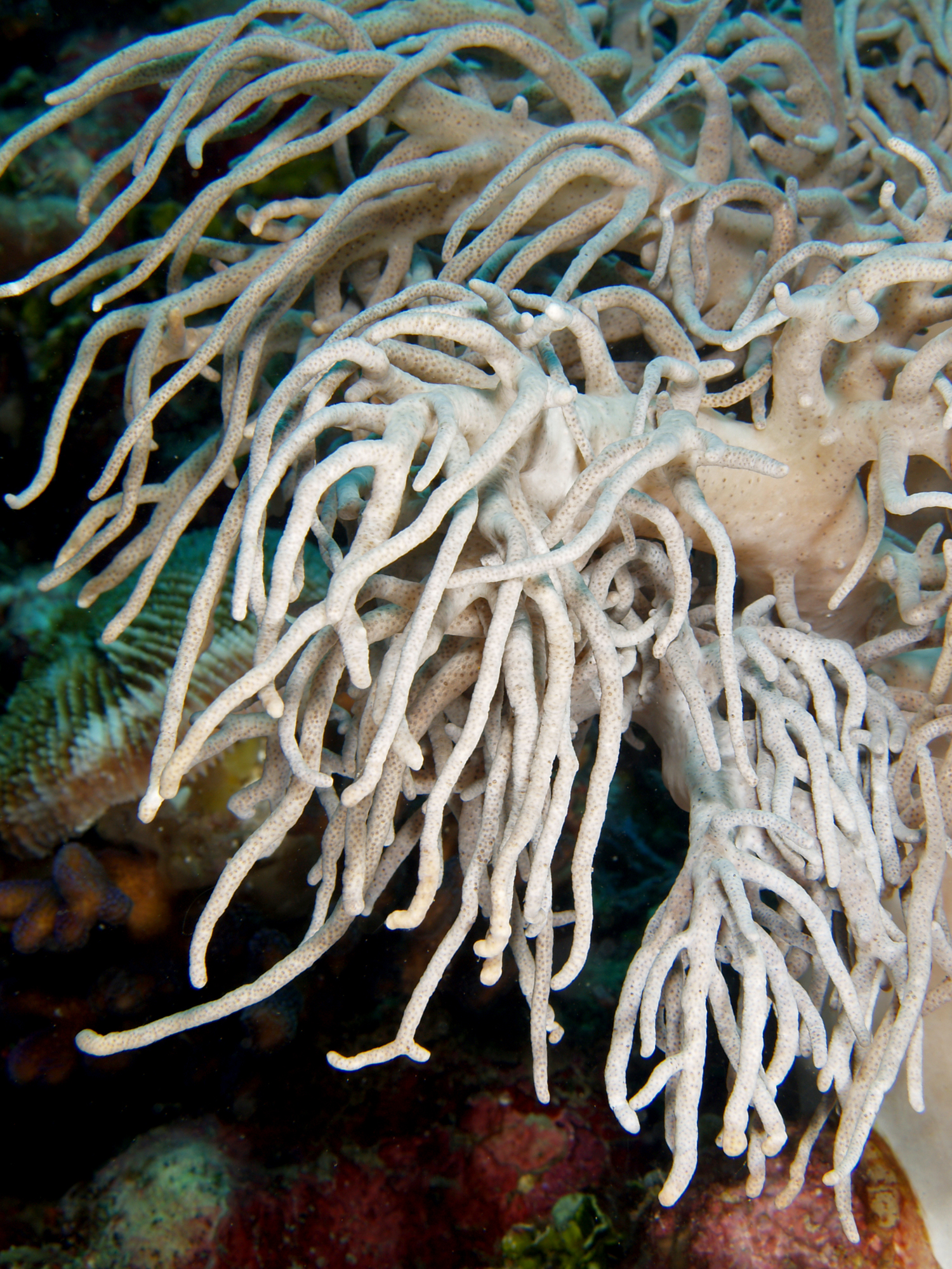 Sinularia flexibilis (Slimy leather coral)